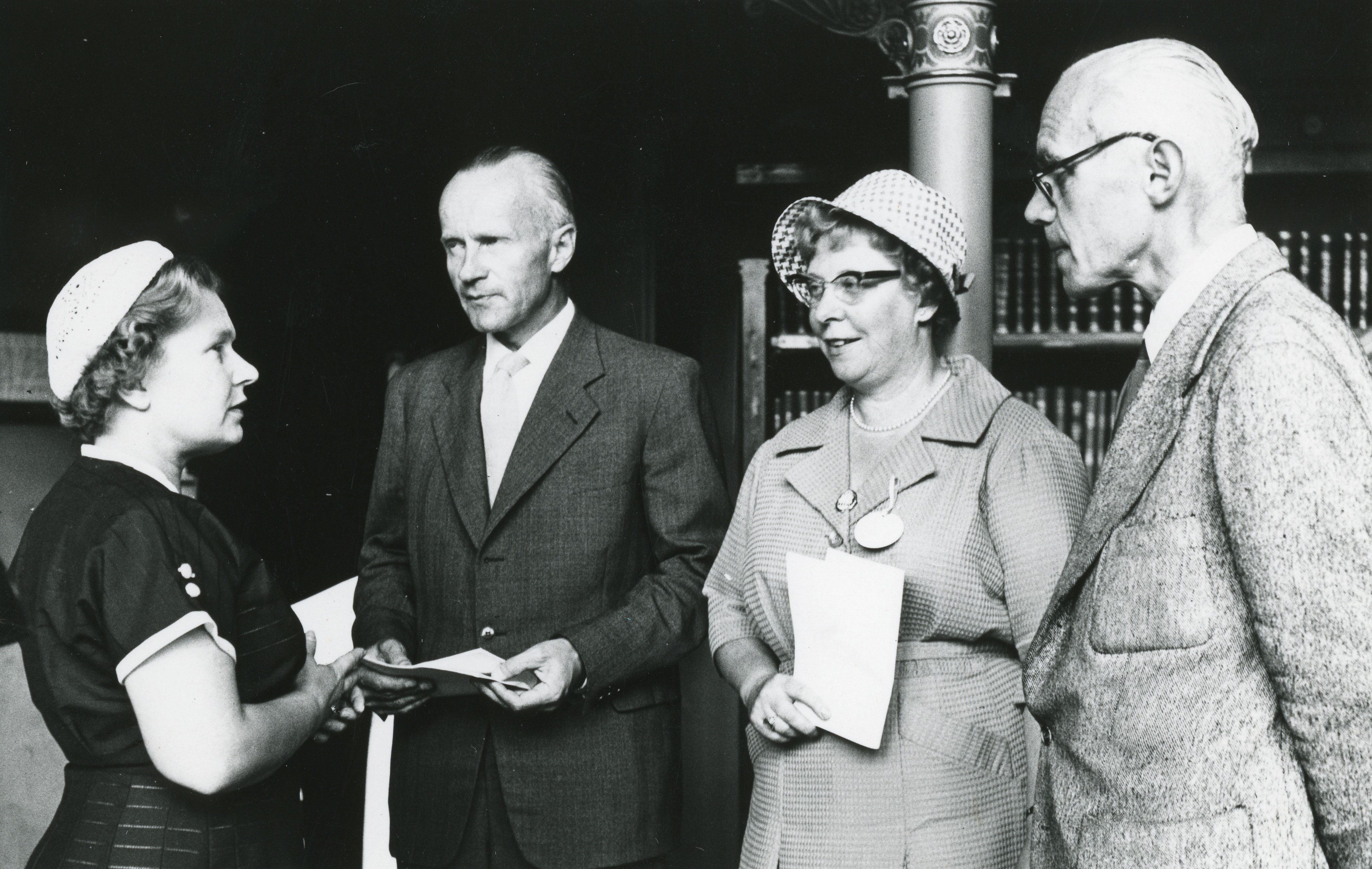 Academic women visiting the National Archives: Aira Kemiläinen, Martti Kerkkonen, Sylvi Möller and Berndt Federley.